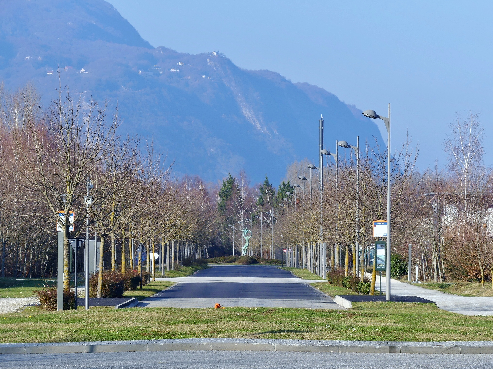 Sight, in winter, of the Avenue du Lac Léman avenue, in Savoie Technolac technopole, near Chambéry and Aix-les-Bains in Savoie, France.